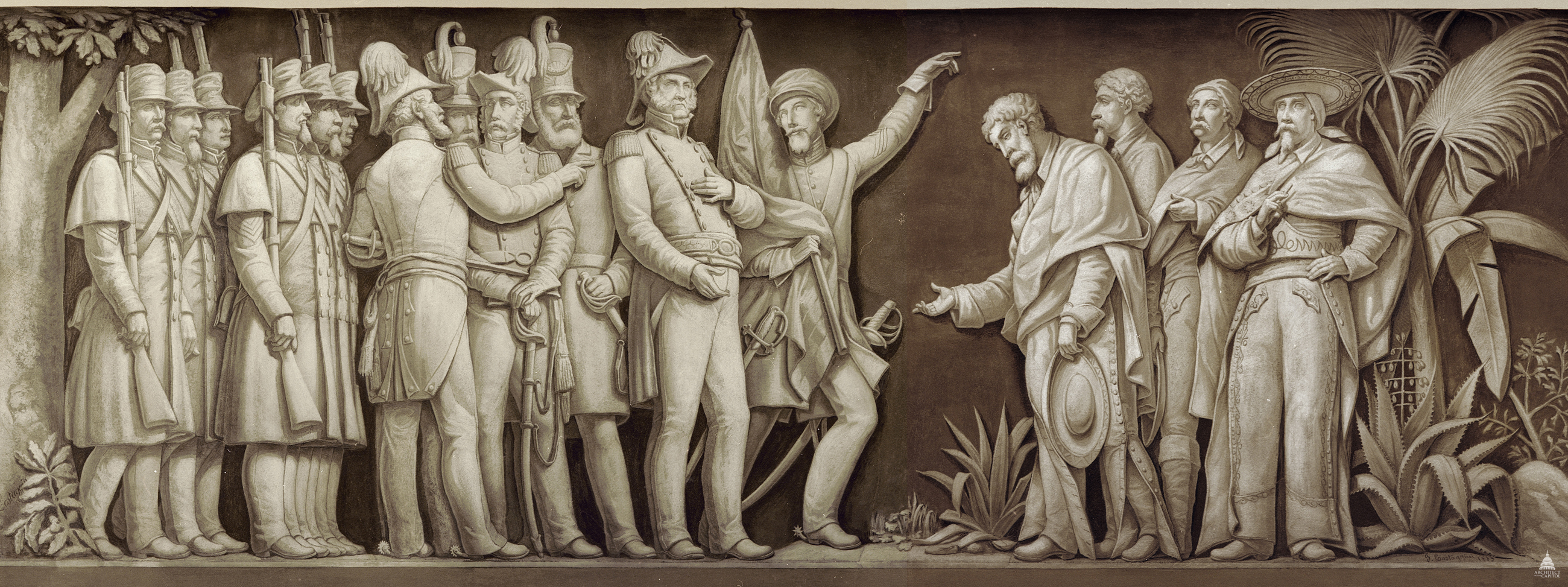 General Winfield Scott is shown during the Mexican War, entering the capital. Peace came in 1848 with the Treaty of Guadalupe Hidalgo, which fixed the Mexican-American border at the Rio Grande River and recognized the accession of Texas. The treaty also extended the boundaries of the United States to the Pacific. The scene was painted by Filippo Constaggini in 1885. The bearded face at the base of the tree on the left may be his self-portrait. This official Architect of the Capitol photograph is being made available for educational, scholarly, news or personal purposes (not advertising or any other commercial use). When any of these images is used the photographic credit line should read “Architect of the Capitol.” These images may not be used in any way that would imply endorsement by the Architect of the Capitol or the United States Congress of a product, service or point of view. For more information visit